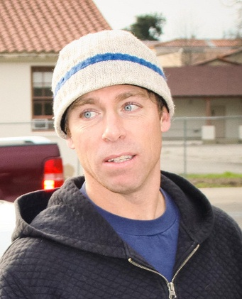 Dave England at Ojai skate park, California.